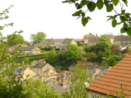 Part of Bramham village looking east.